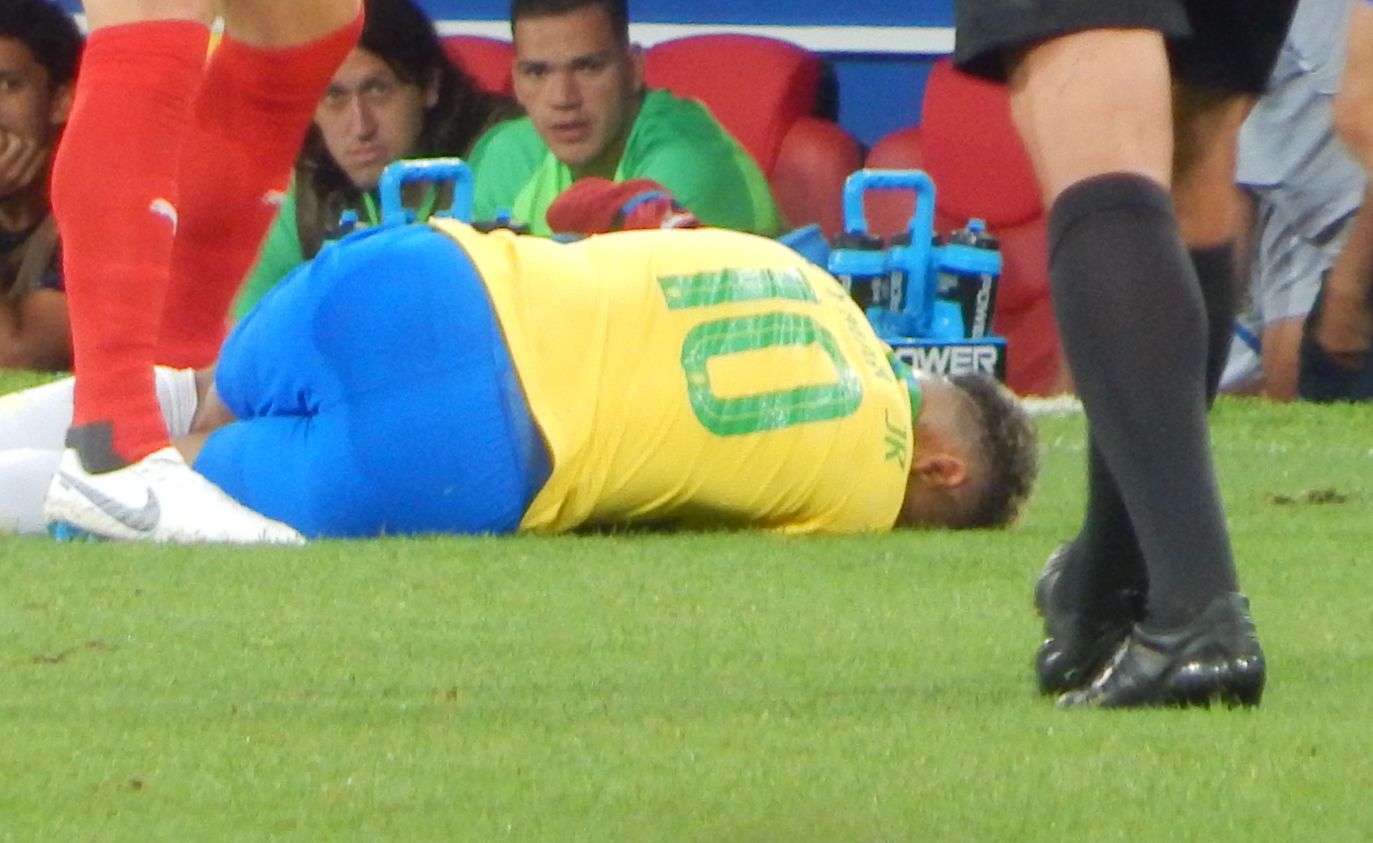 FIFA World Cup 2018, Group E, Serbia vs. Brazil